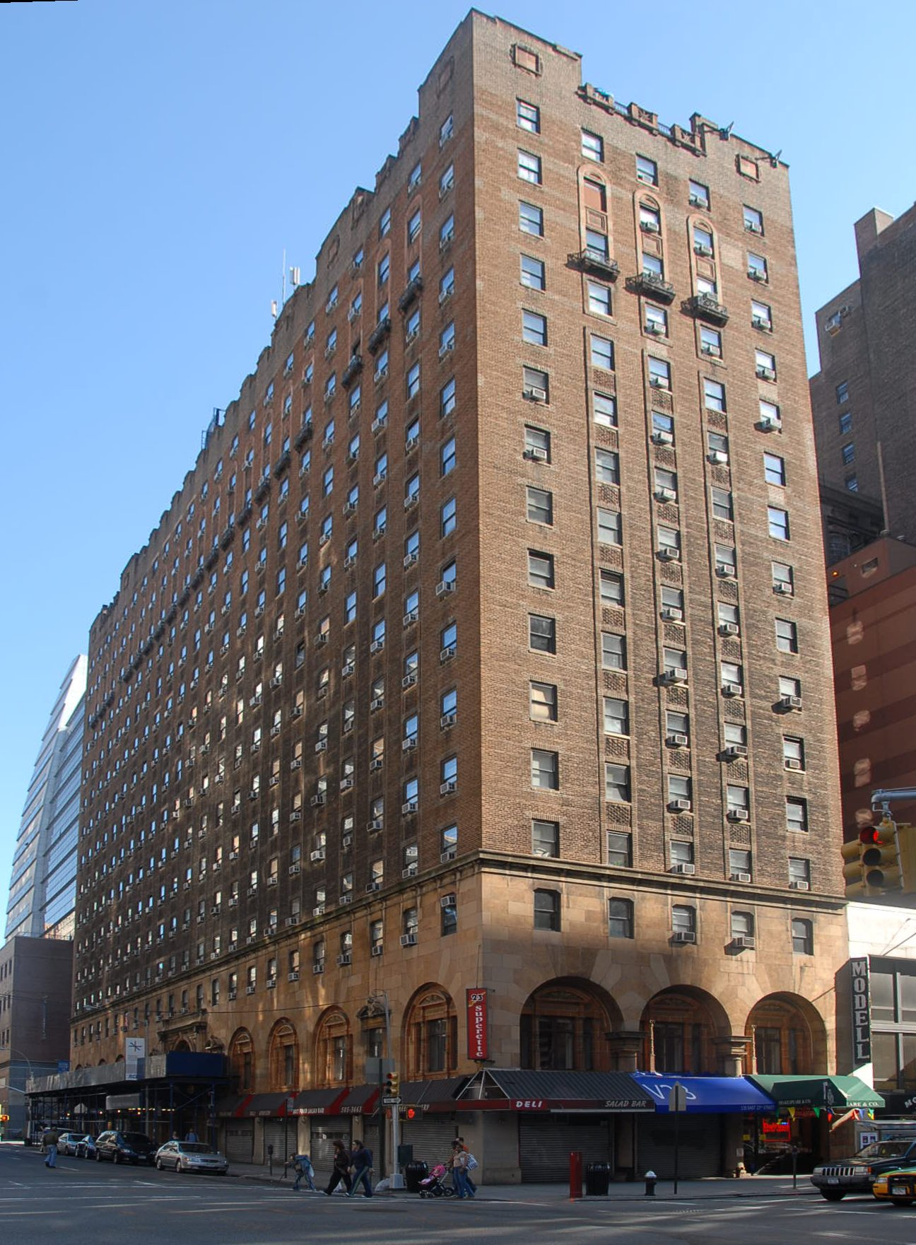 Hotel Washington, Lexington Avenue, Manhattan. Place where Pilsudski Institute was born July 4, 1943.